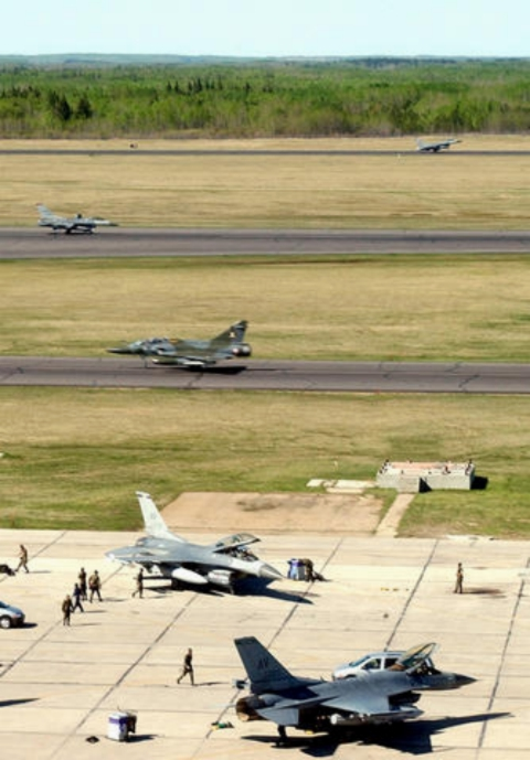 Four General Dynamics F-16 Fighting Falcon fighters and a Dassault Mirage 2000 on the runways at CFB Cold Lake during exercise "Maple Flag 02".